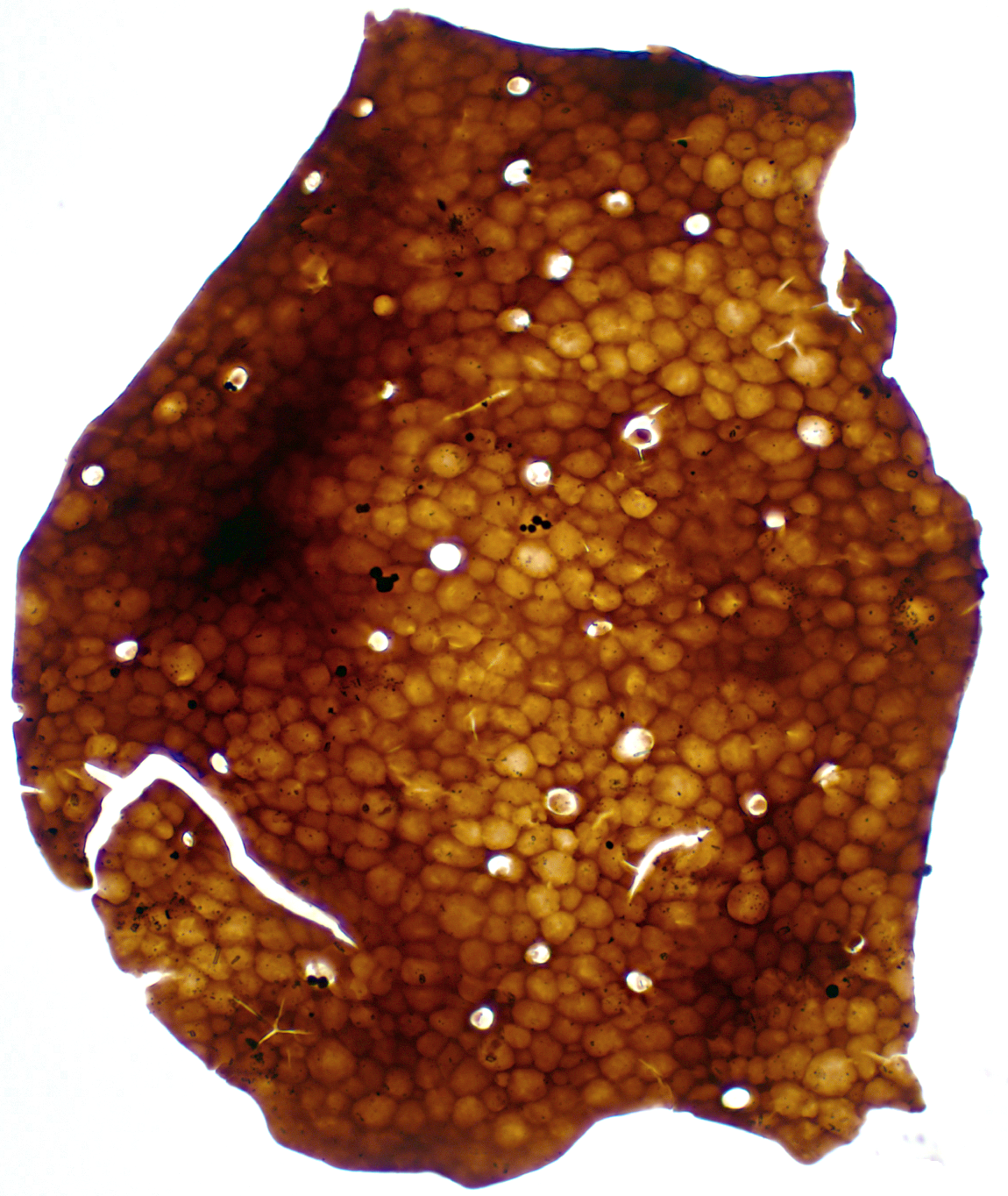 Cosmochlaina from the Burgsvik beds of Gotland, Sweden. Average cell diameter 12 μm